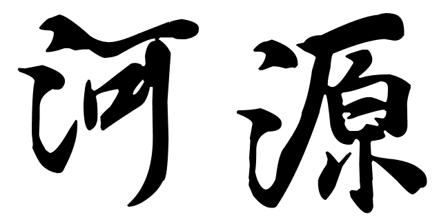 Heyuan in Chinese